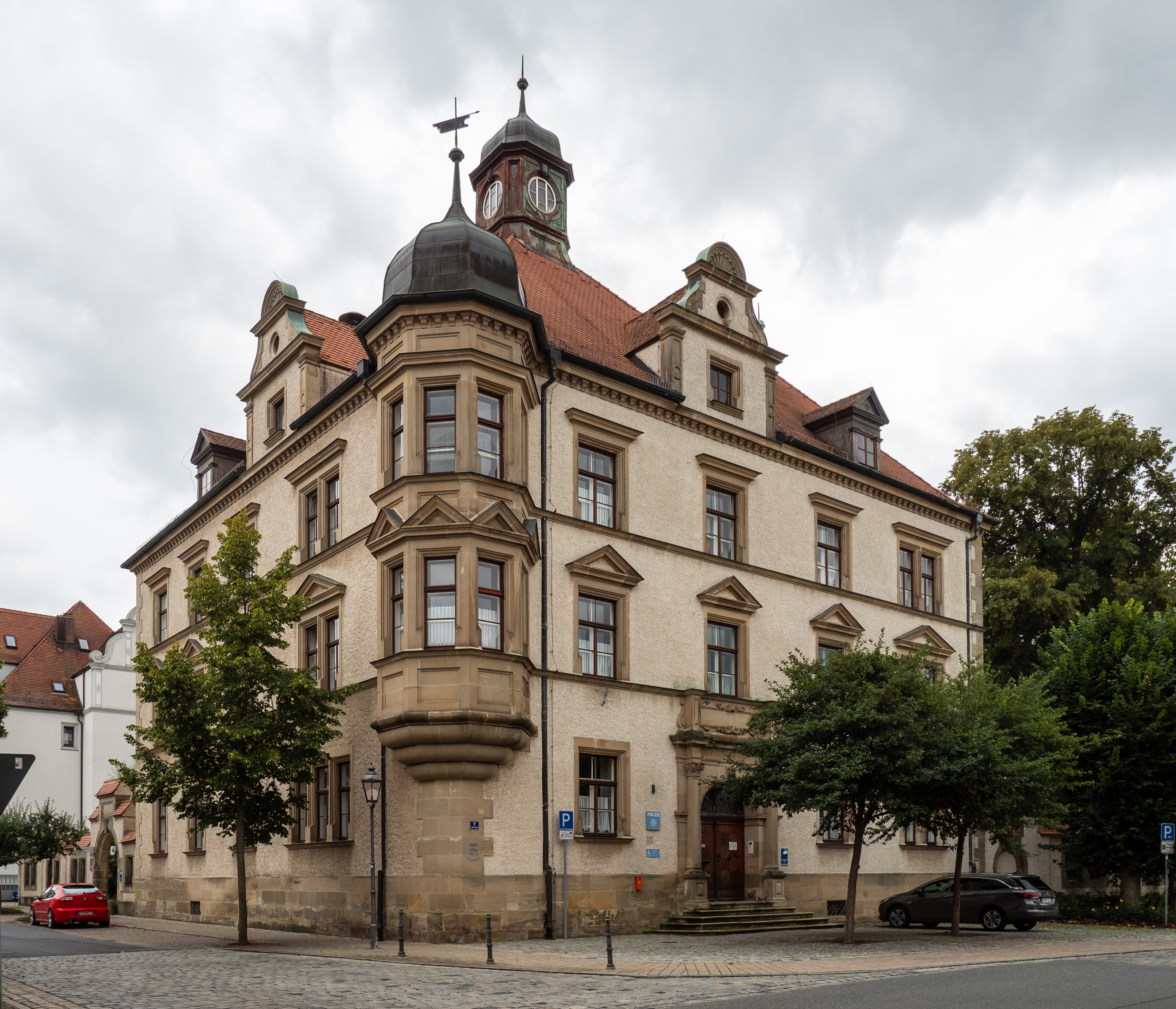 Former Local Court in Auerbach Oberer Torplatz 7